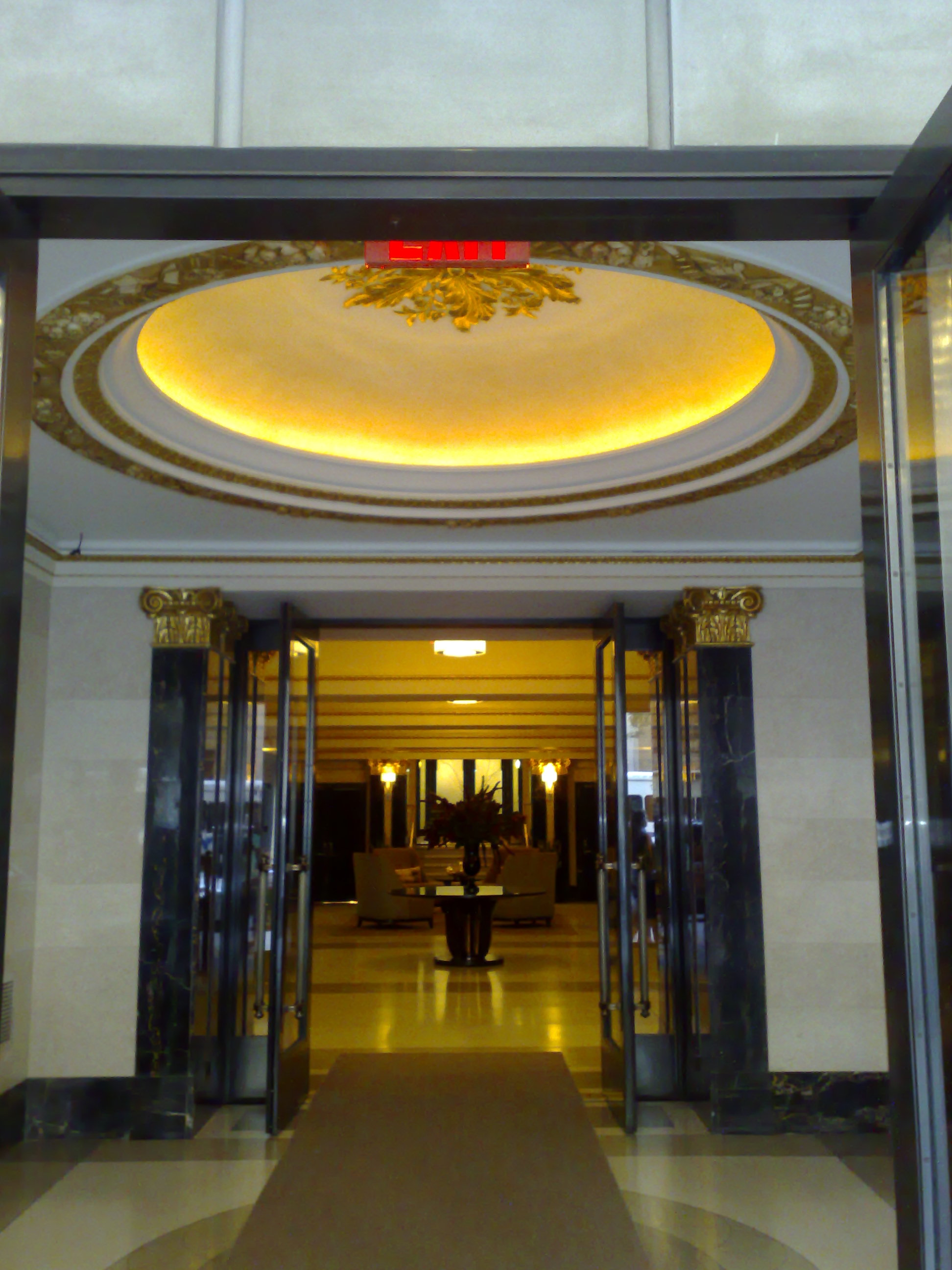 This photo is of Wikis Take Manhattan goal code A3, Olcott Hotel.